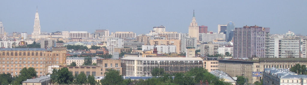 OKB-156 of A.N.Tupolev in Moscow, Russia